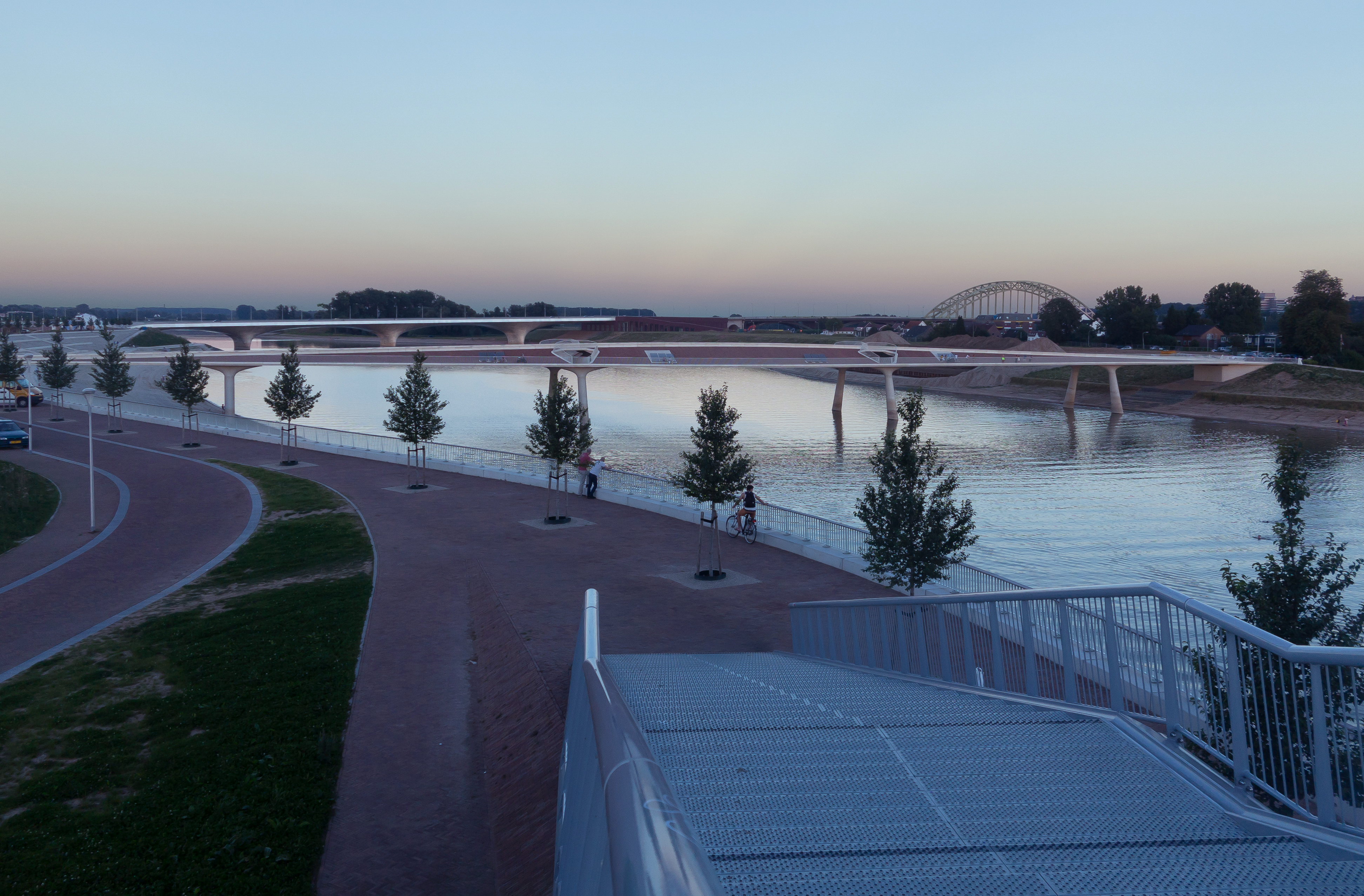 Nijmegen, bridge: de (Verlengde) Waalbrug en de Lenteloper